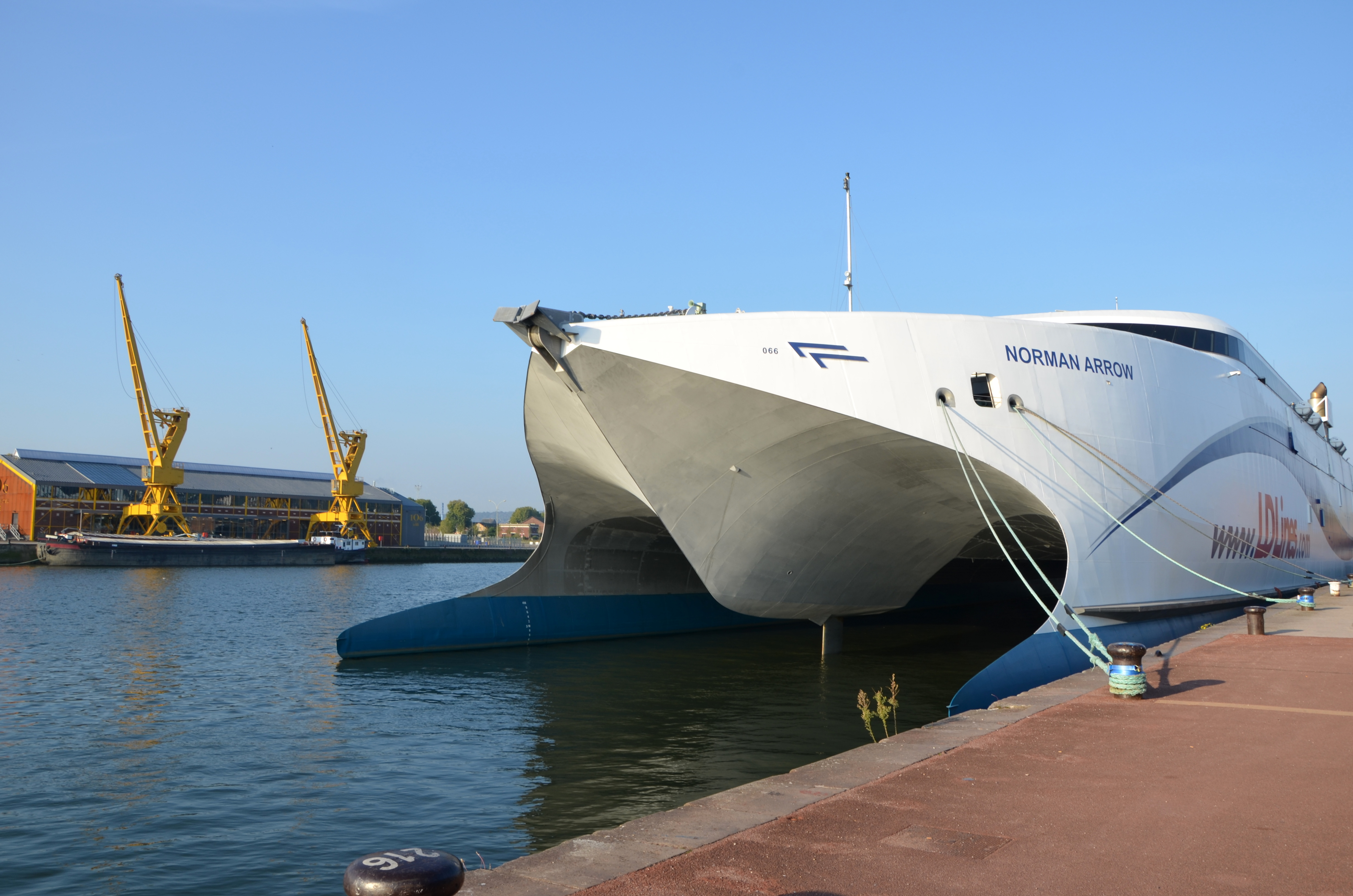 High speed catamaran Norman Arrow of the french operator LD Lines in the harbour of Rouen (France) Tonnage=10,503 Gross tons Length={112.6 m Beam=30.5 m Draft=3.93 m Propulsion=4 x Wartsila LJX 1500SR hydrojets Speed=40 knots Capacity=1200 passengers417 cars